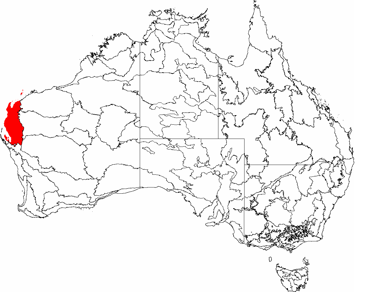 This is a map of the Interim Biogeographic Regionalisation of Australia (IBRA), with state boundaries overlaid. The Carnarvon region is shown in red.